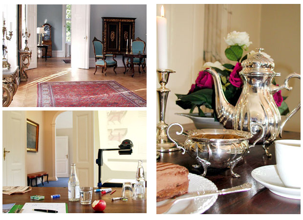 Pictures from on the manor Vineholme on Lolland, Denmark.